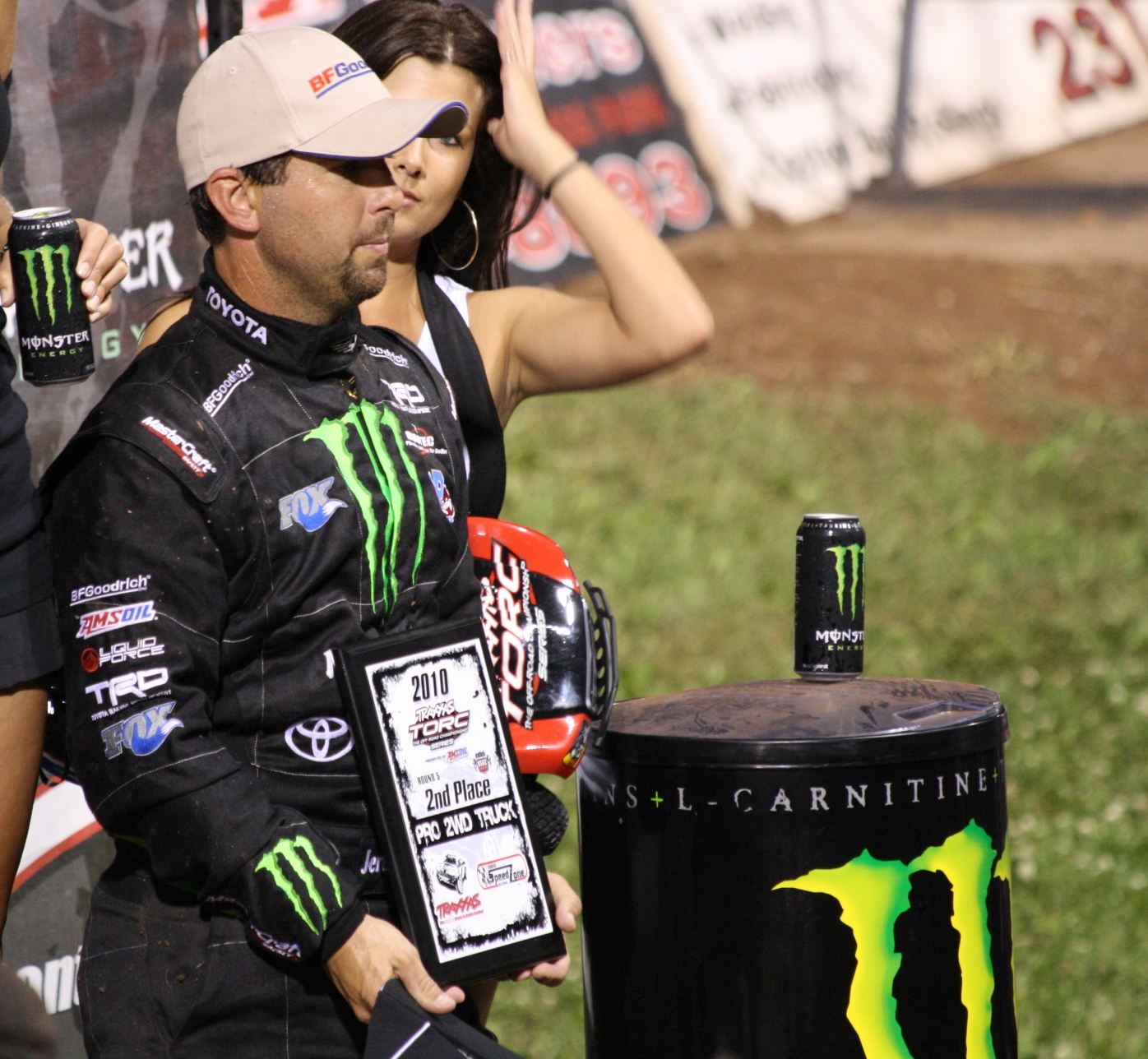 Off-road racer Jeremy McGrath after finishing second in a Traxxas TORC Series race in Oshkosh, Wisconsin.